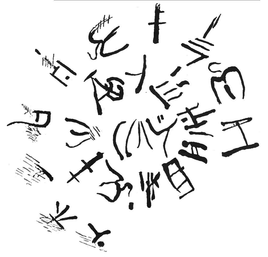 Linear A. Ink-witten inscriptions round the inner surface of cup (Third Middle Minoan)